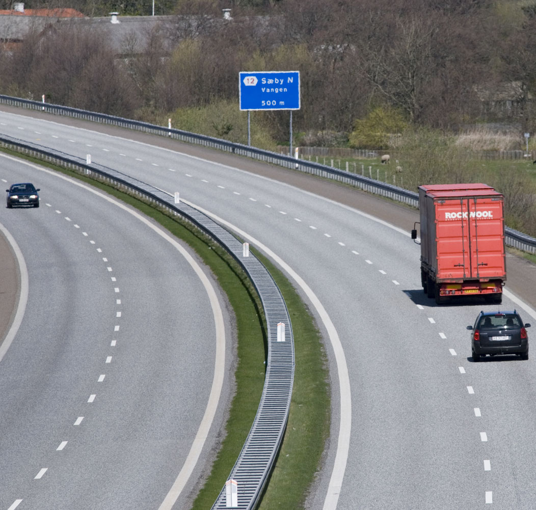 European route E45; last exit on the European mainland, just south of Frederikshavn (though the last exit is actually named Sæby N)